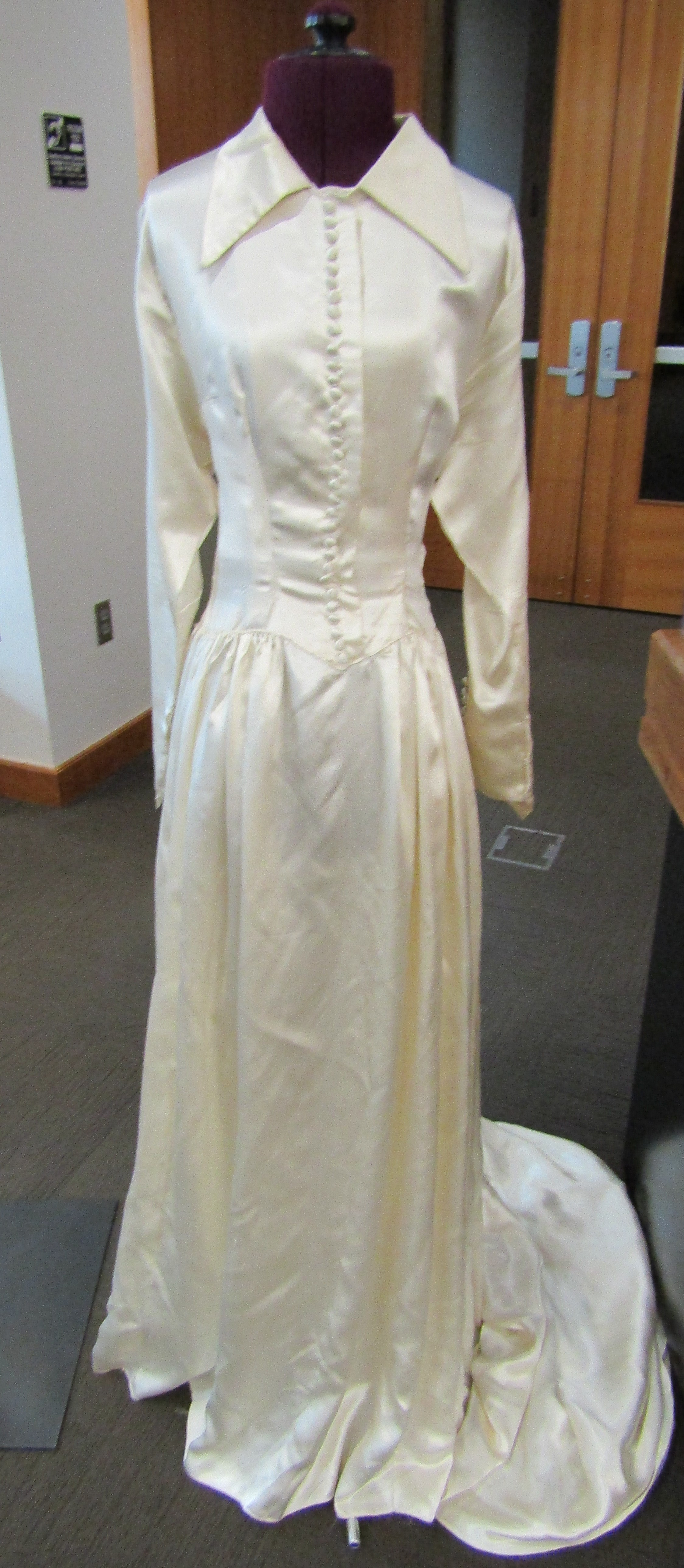 Wedding dress made from parachute silk which American soldier Tom Worthington acquired while serving in Japan during World War II.